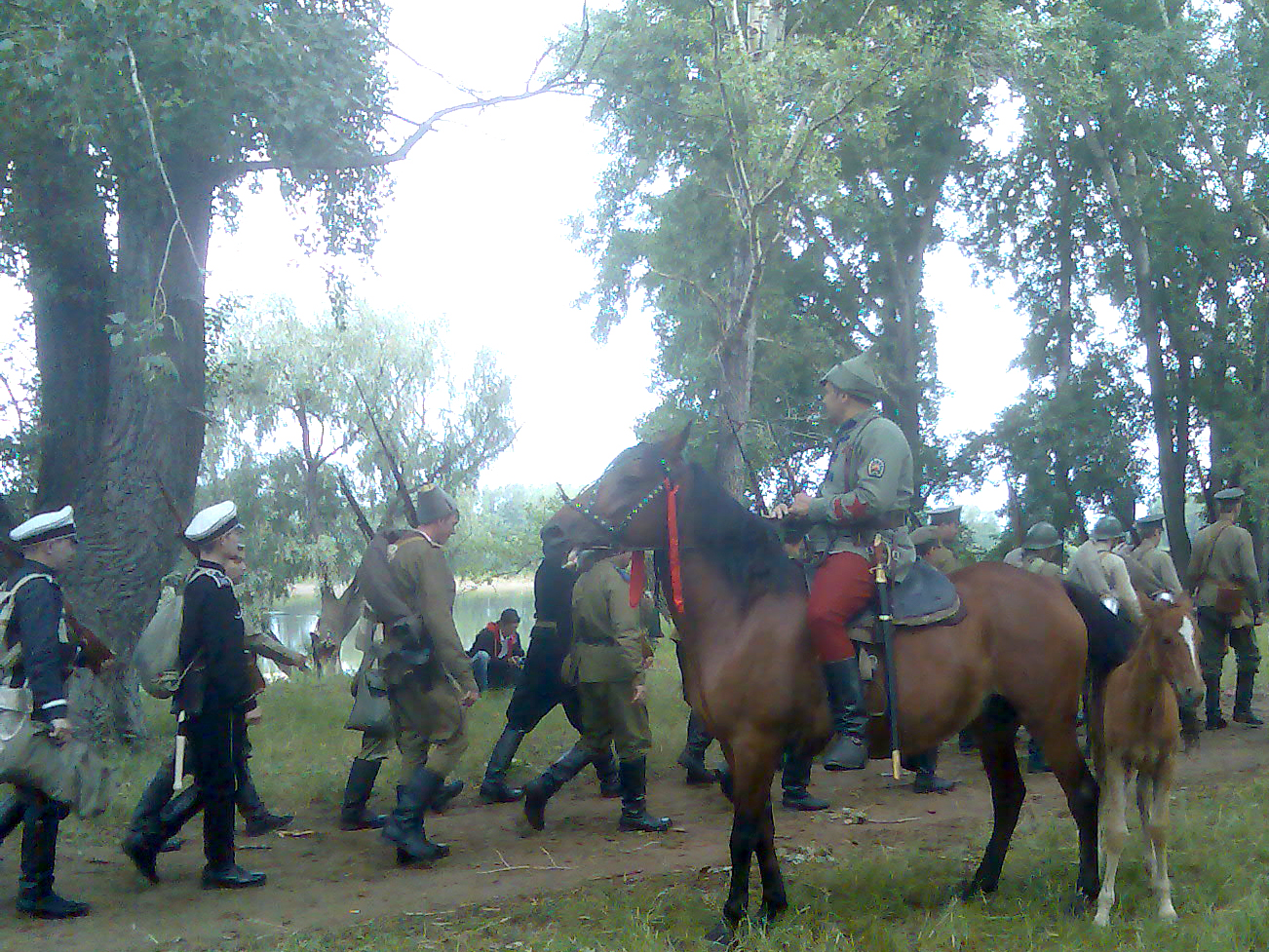 1919 Chapaev division at Krasny Yar, near Ufa, reconstruction 2009